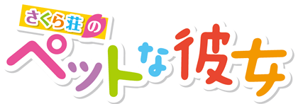 The Pet Girl of Sakurasou logo